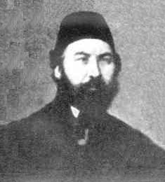 Halil Sherif Pasha, Ottoman Minister of Foreign Affairs